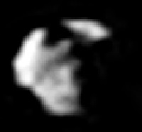 This image of Helene was acquired by the Voyager 2 spacecraft on August 25, 1981.